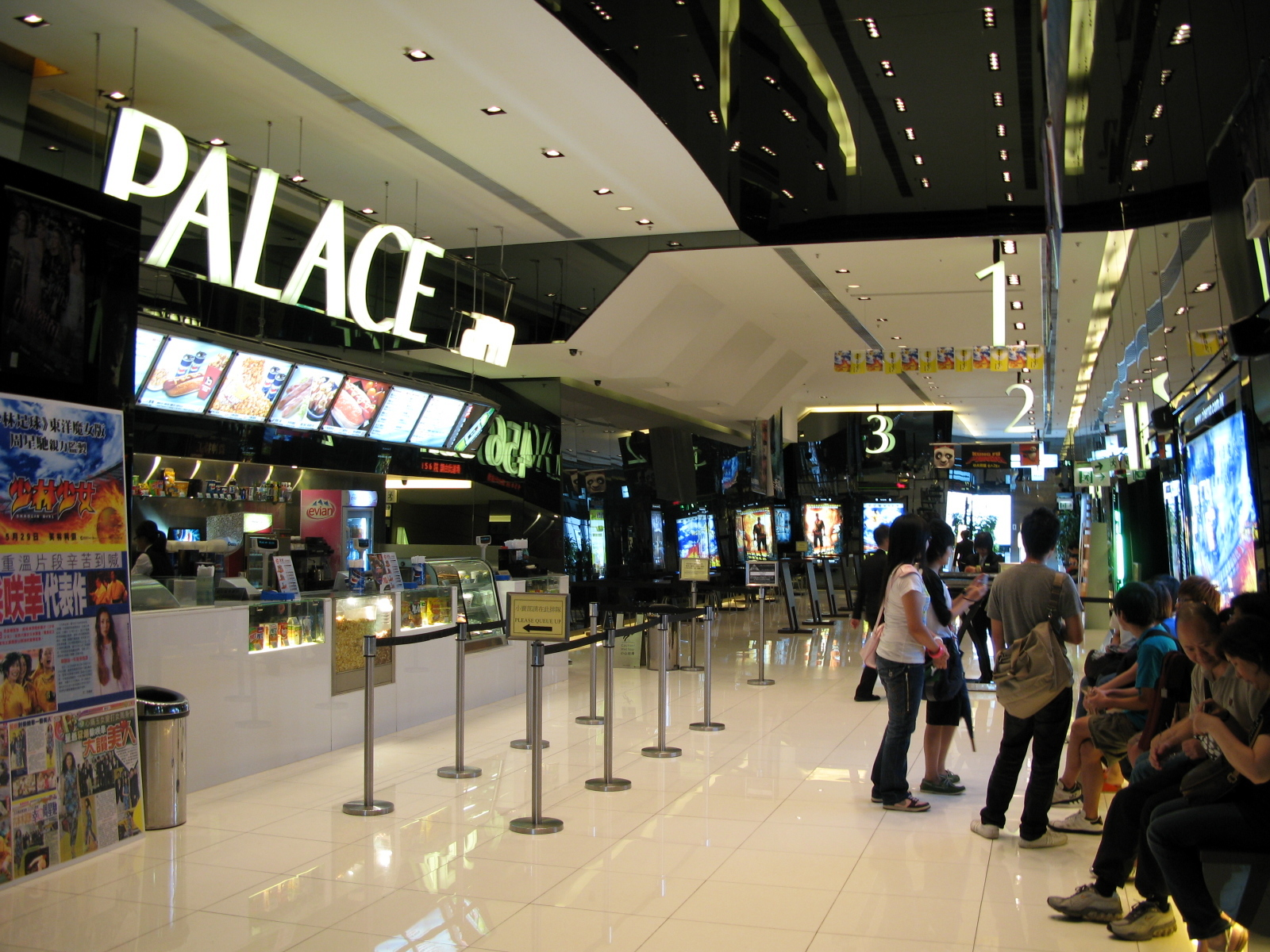 HK Palace apm Theatre